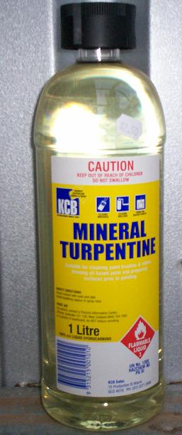 Mineral turpentine, Photograph taken by myself, September 30, 2007.